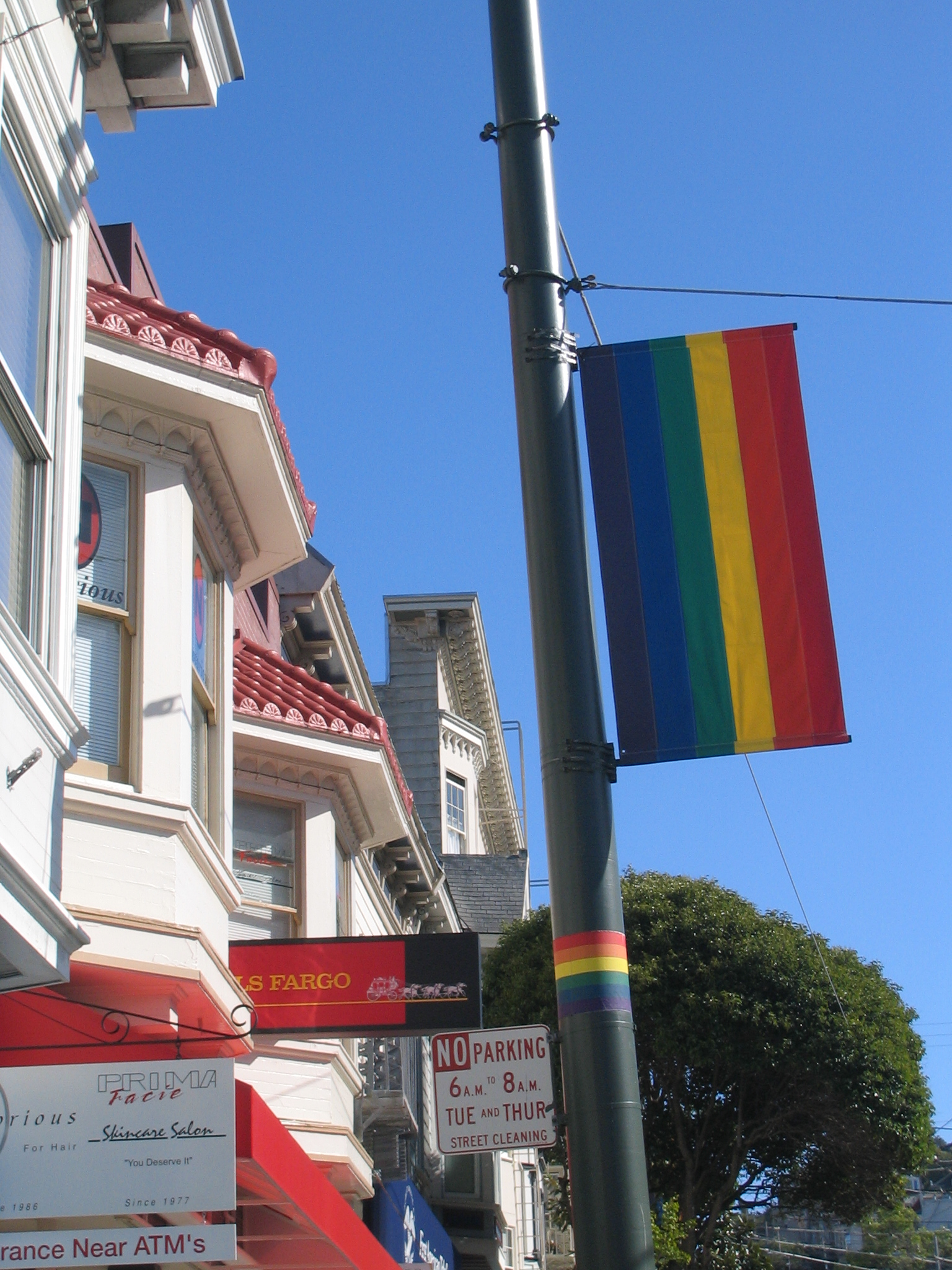 A rainbow flag affixed to a lightpole in the Castro district of San Francisco, California.